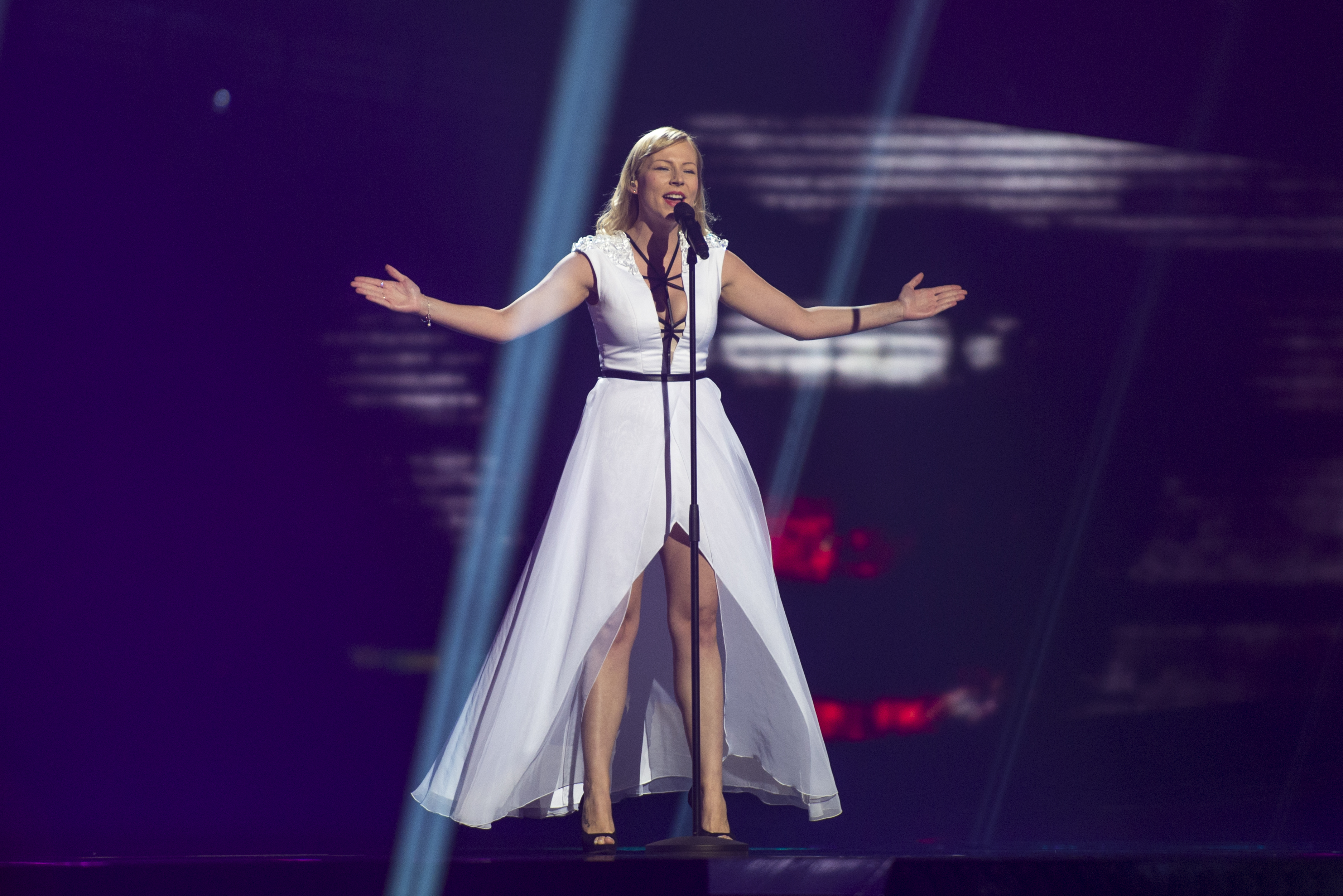 ManuElla representing Slovenia with the song "Blue And Red" during a rehearsal before the second semi final of the Eurovision Song Contest 2016 in Stockholm. (Help translate this text)